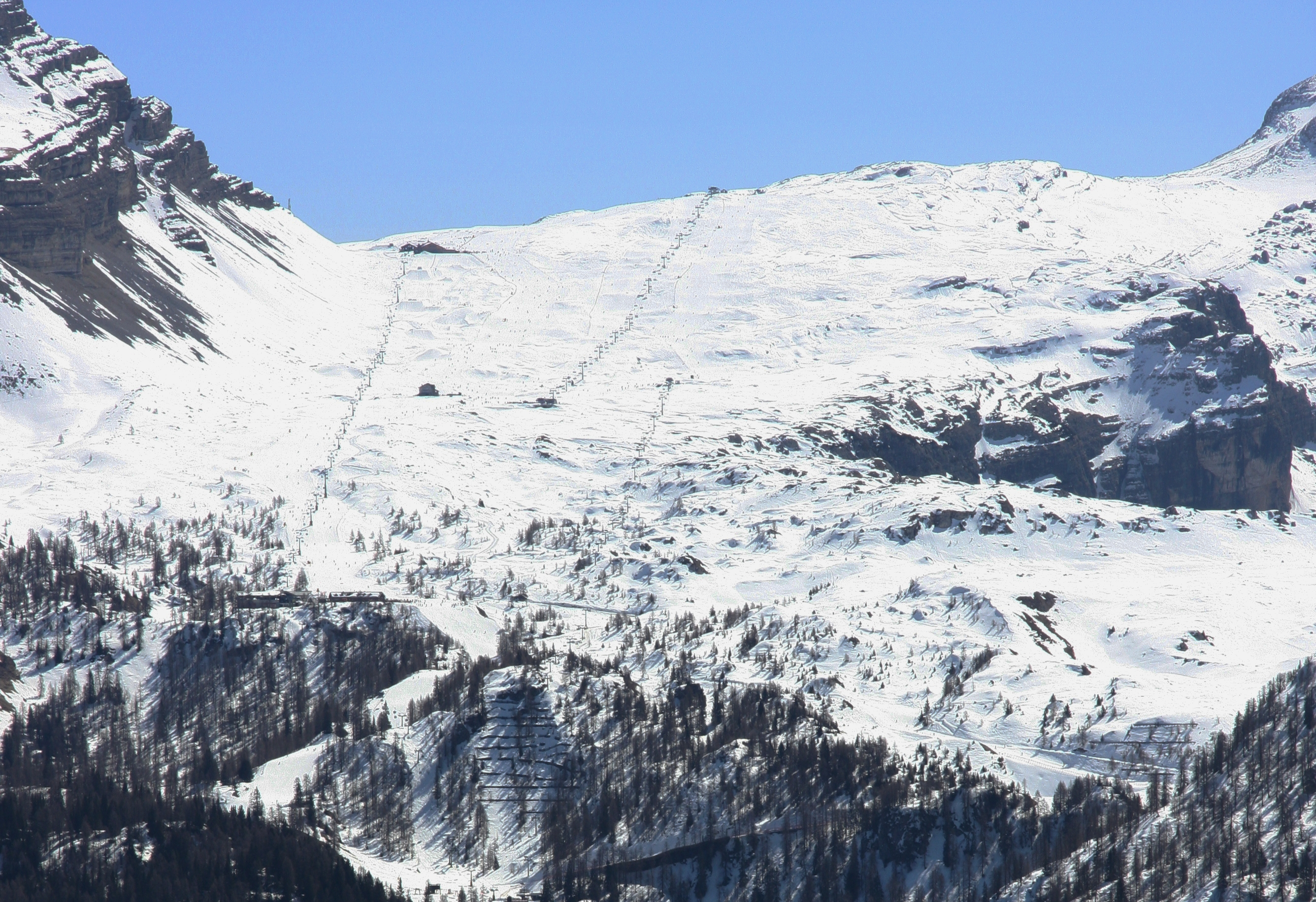 Winter view on Passo Grosté in Dolomites